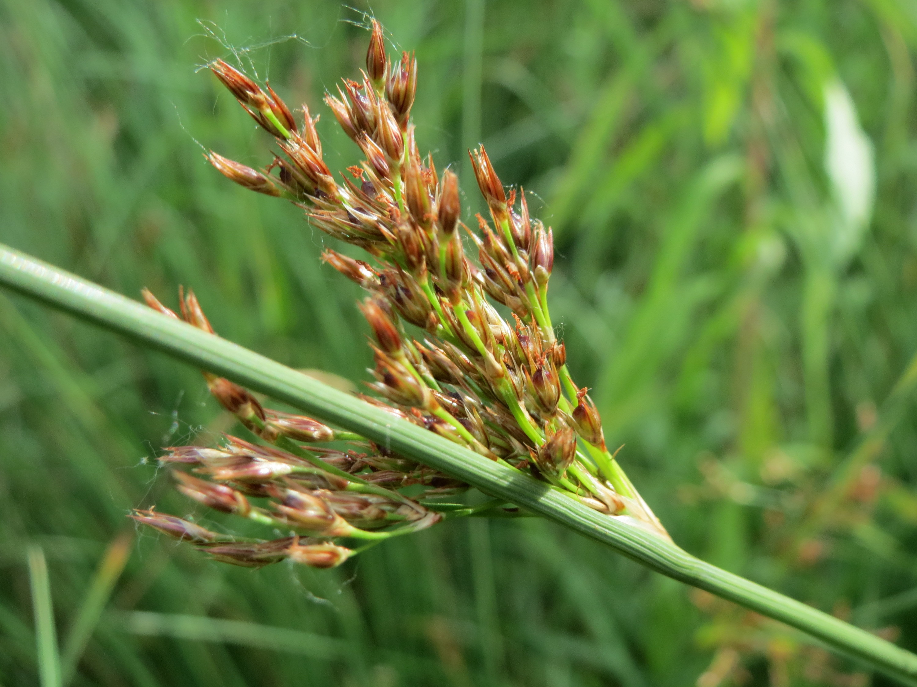 Juncus effusus, the common rush in Naturschutzgebiet "St. Arnualer Wiesen"